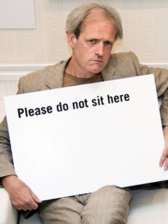 Comedian